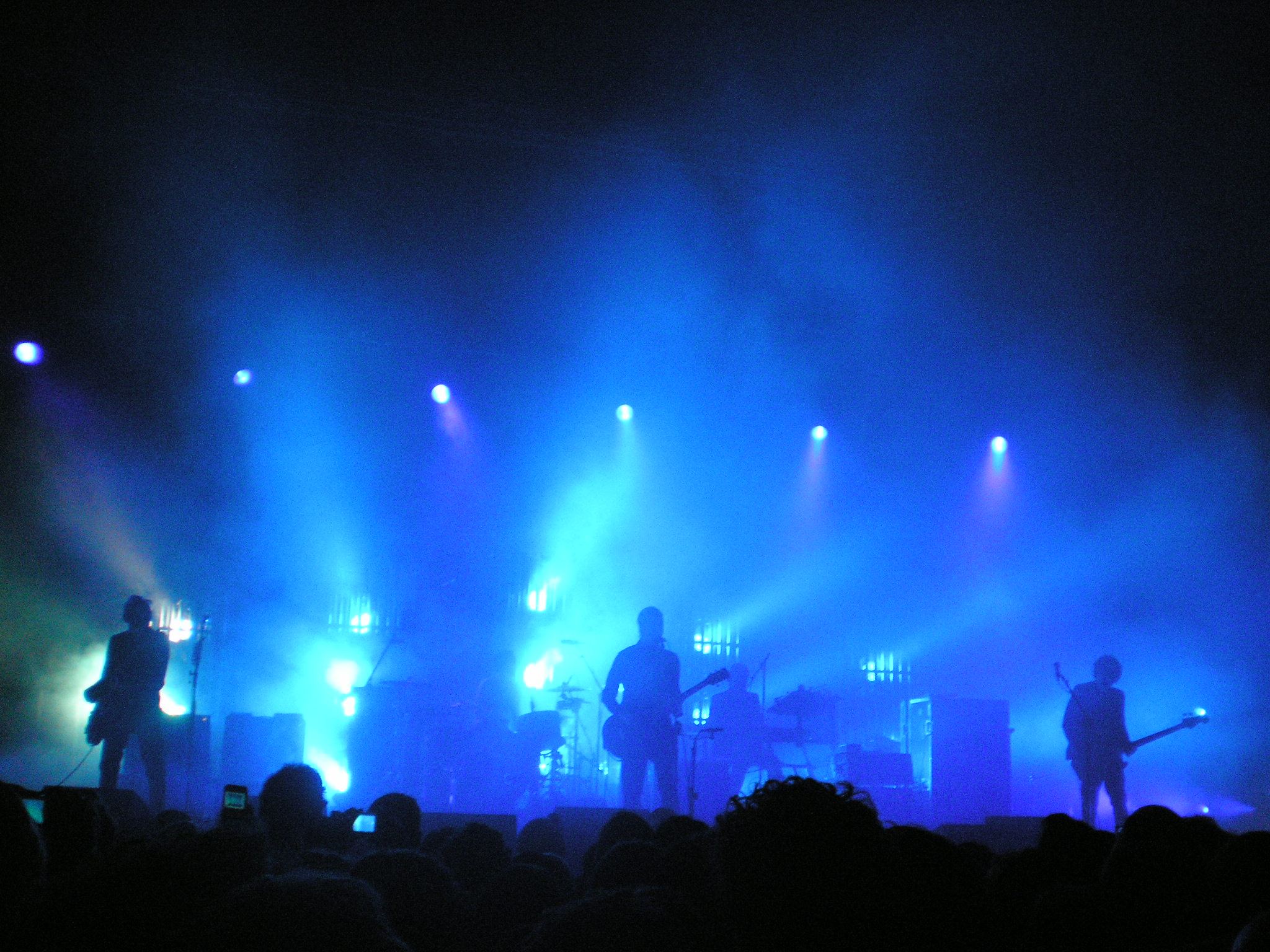 Interpol performing live at Gasometer, Vienna